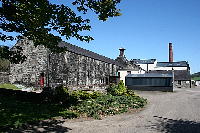 Knockdhu Distillery The black appearance of the stonework is typical of distillery warehouses; it is discolouration from the vapours from the maturing spirit.